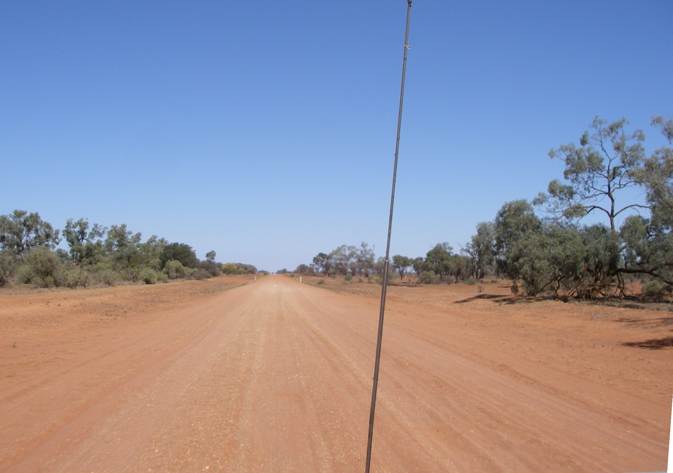 Bourke-Wilcannia Highway approx. 10km from Bourke.